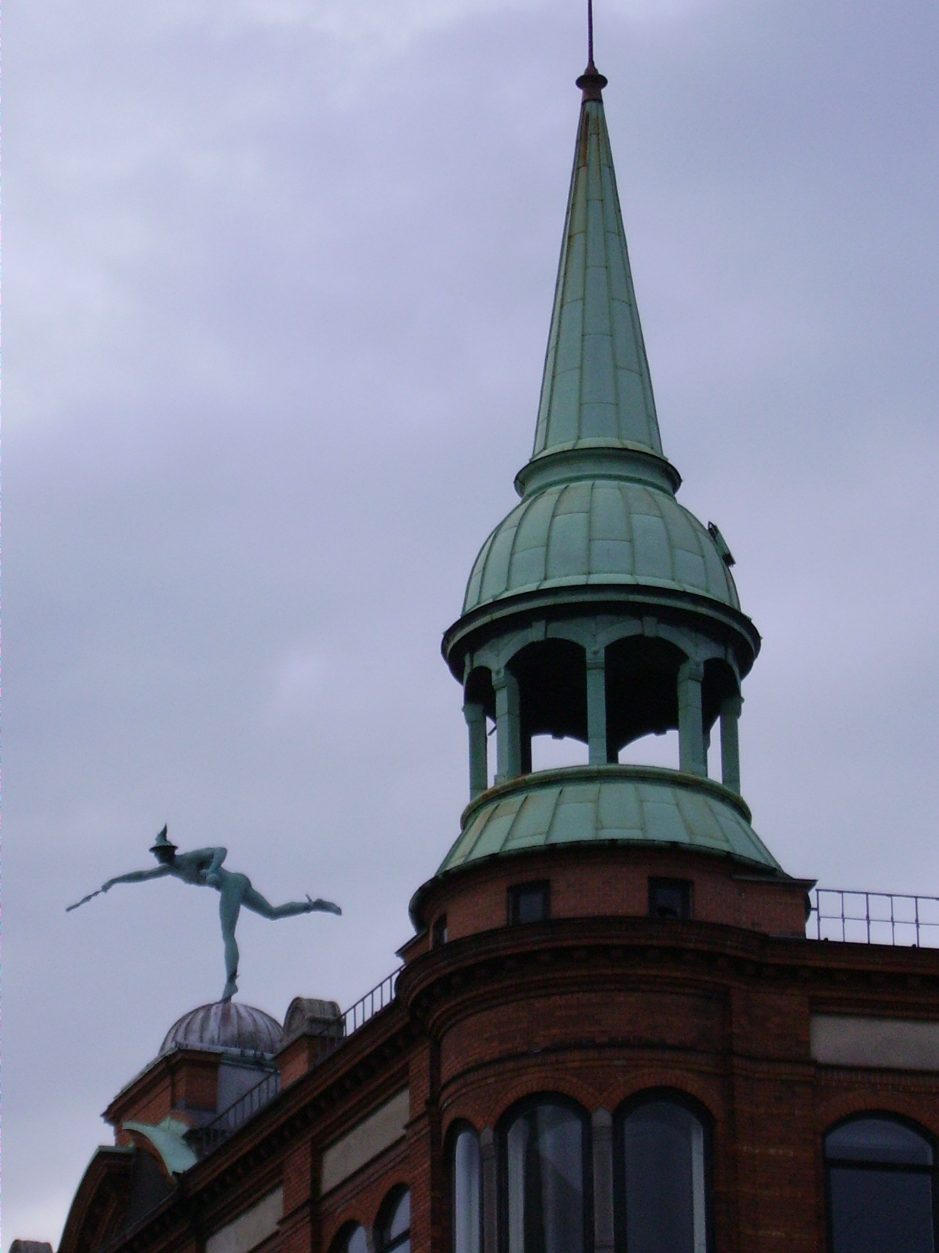 Mercury by Julius Schultz, 1896.